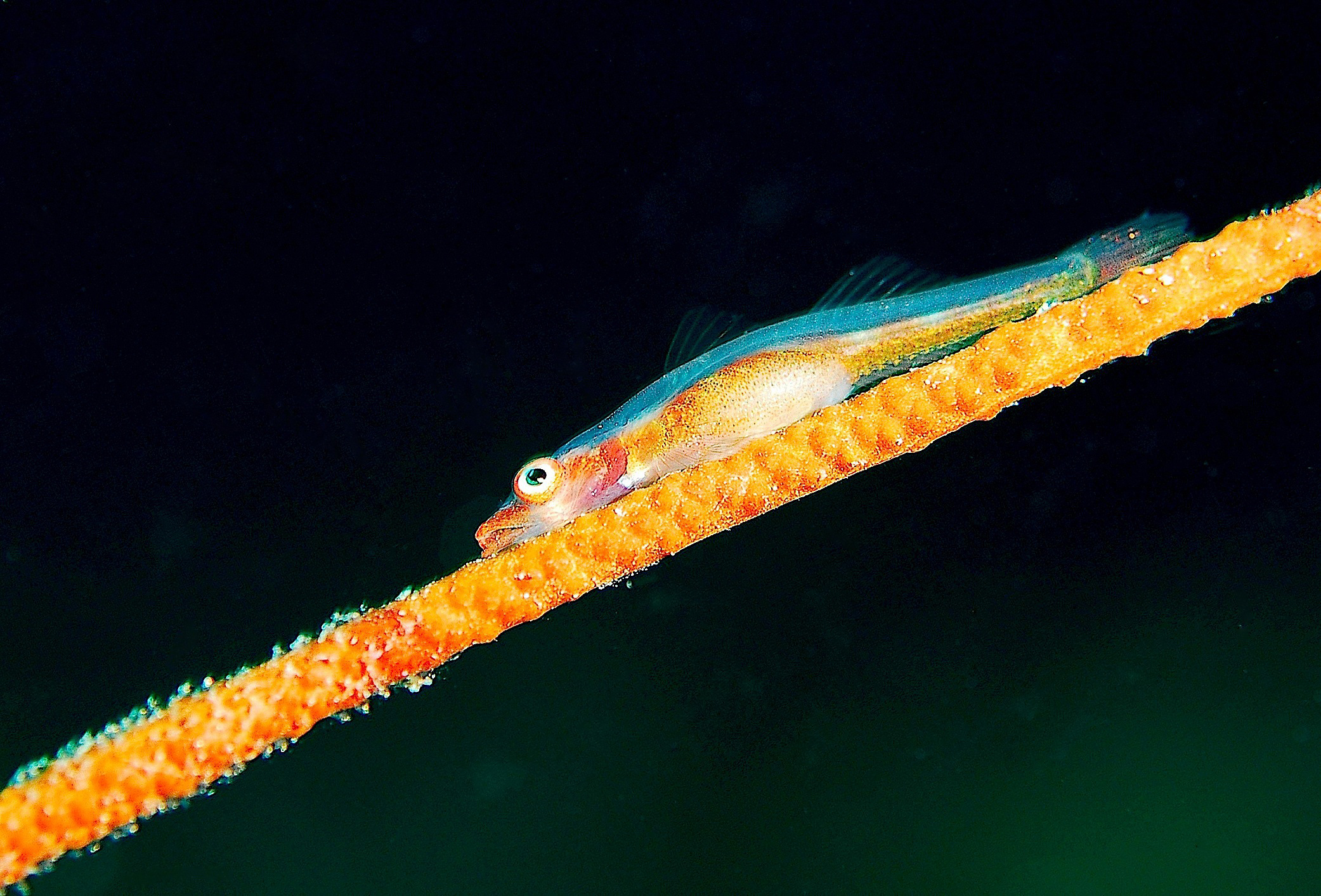 'Sea whip Goby' On Black up to 2cm